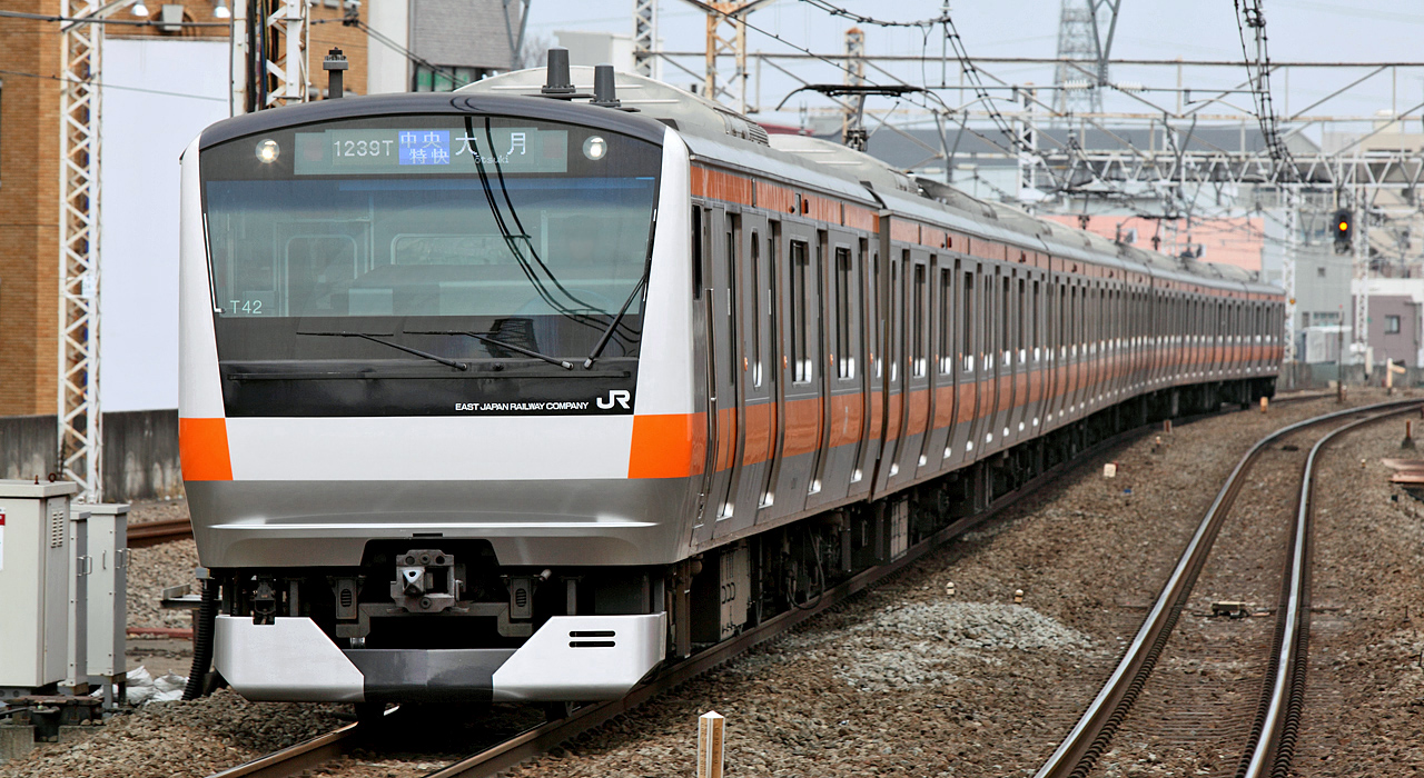 JR East E233 series Rapid Train on Chūō Main Line ( T42F / Nishi-Ogikubo Stn. - Kichijōji Stn. ).